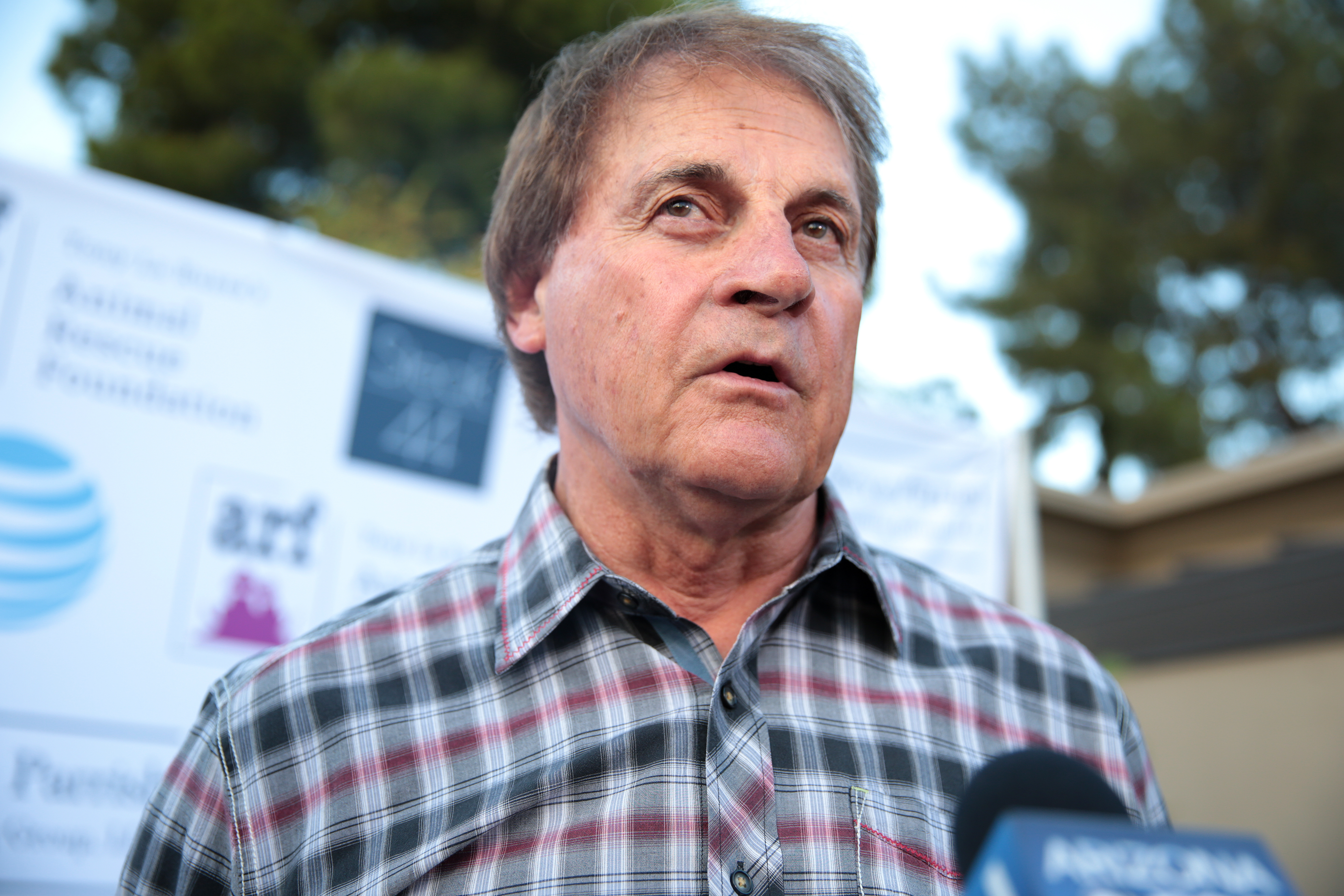 Tony La Russa on the red carpet at the Dinner of Champions hosted by La Russa in Phoenix, Arizona.